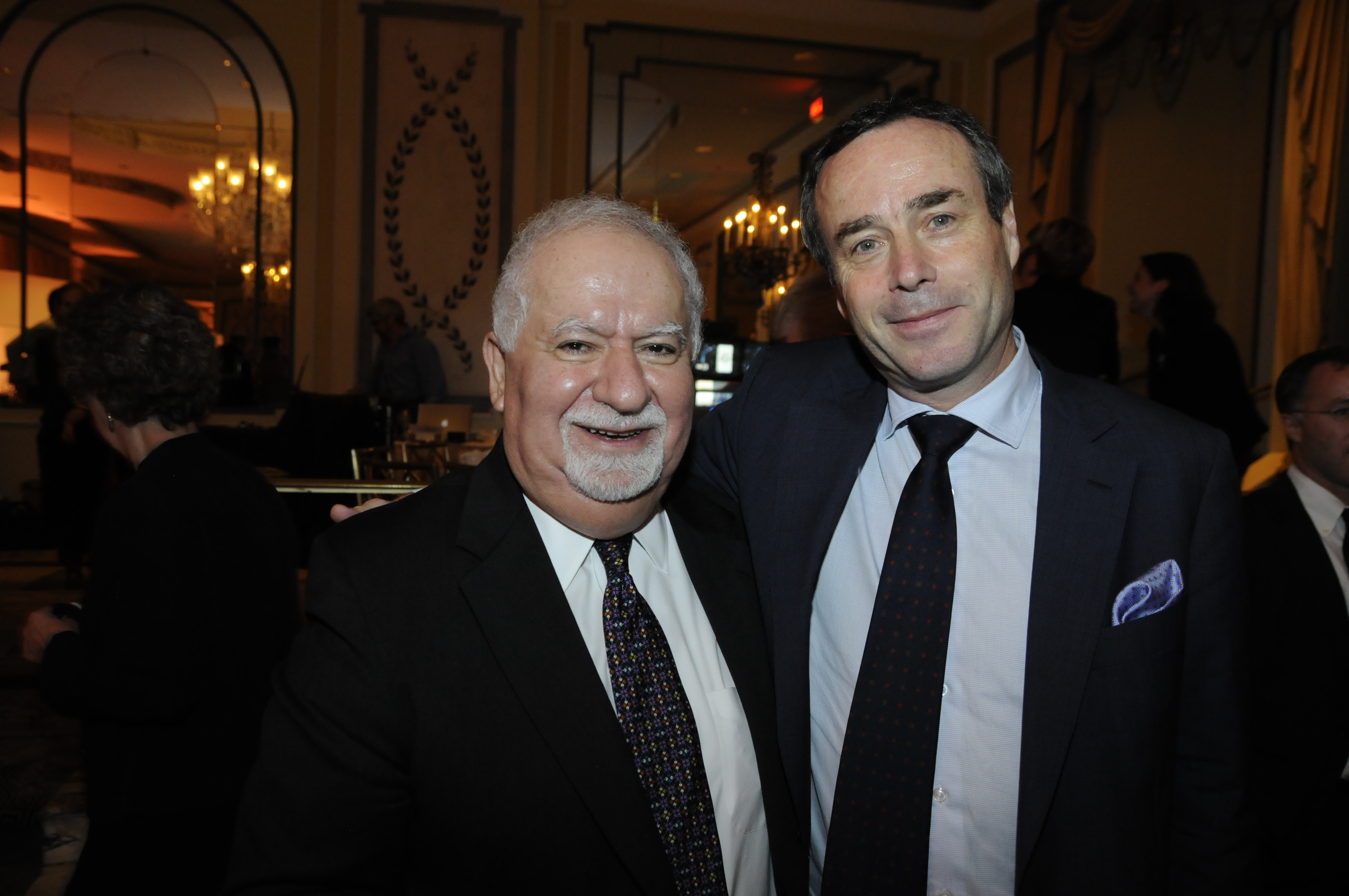 Vartan Gregorian and Lionel Barber